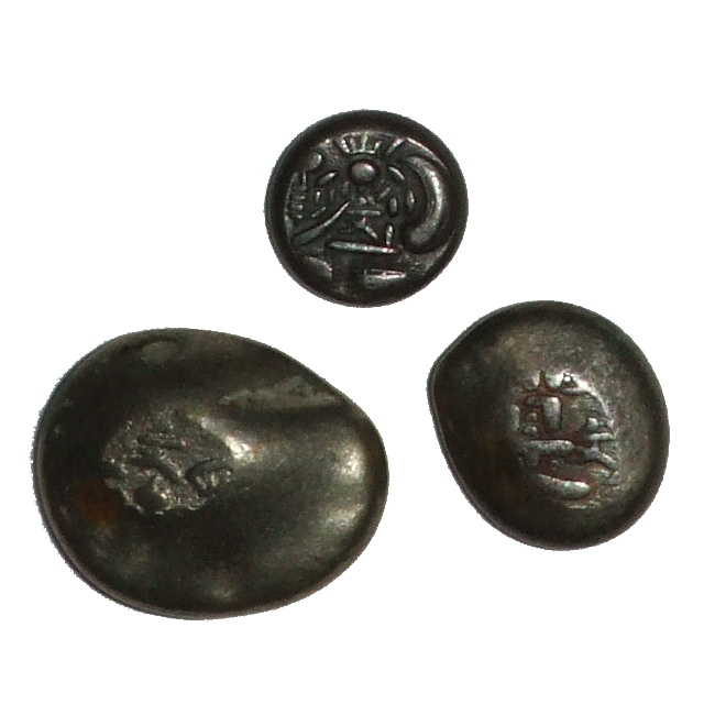 Shinbunzi-mameitagin(silver beans)